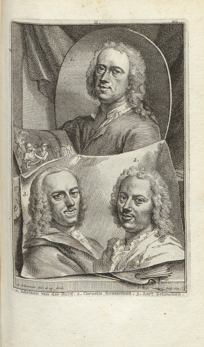 Adriaen van der Burg Cornelis Greenwood Aert Schouman